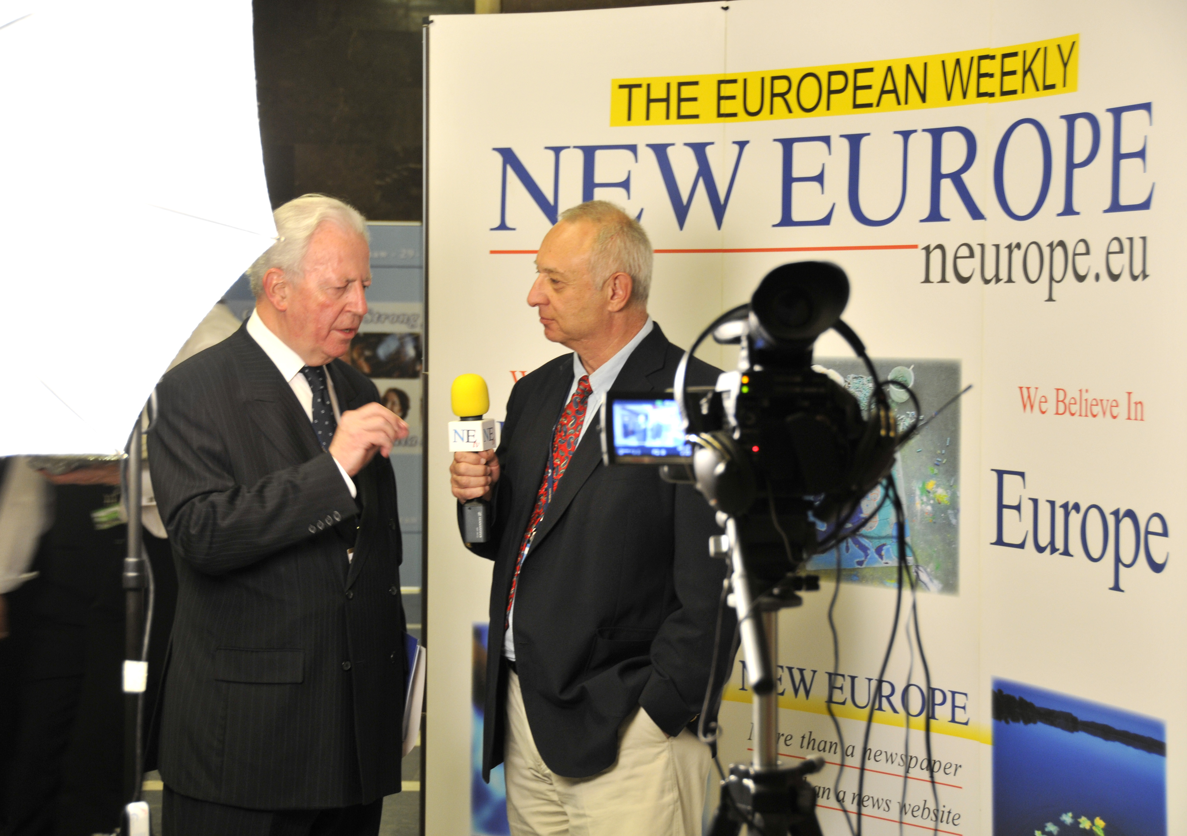 EPP Congress Warsaw